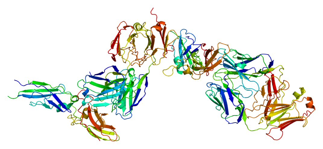 Structure of the F3 protein. Based on PyMOL rendering of PDB 1ahw.